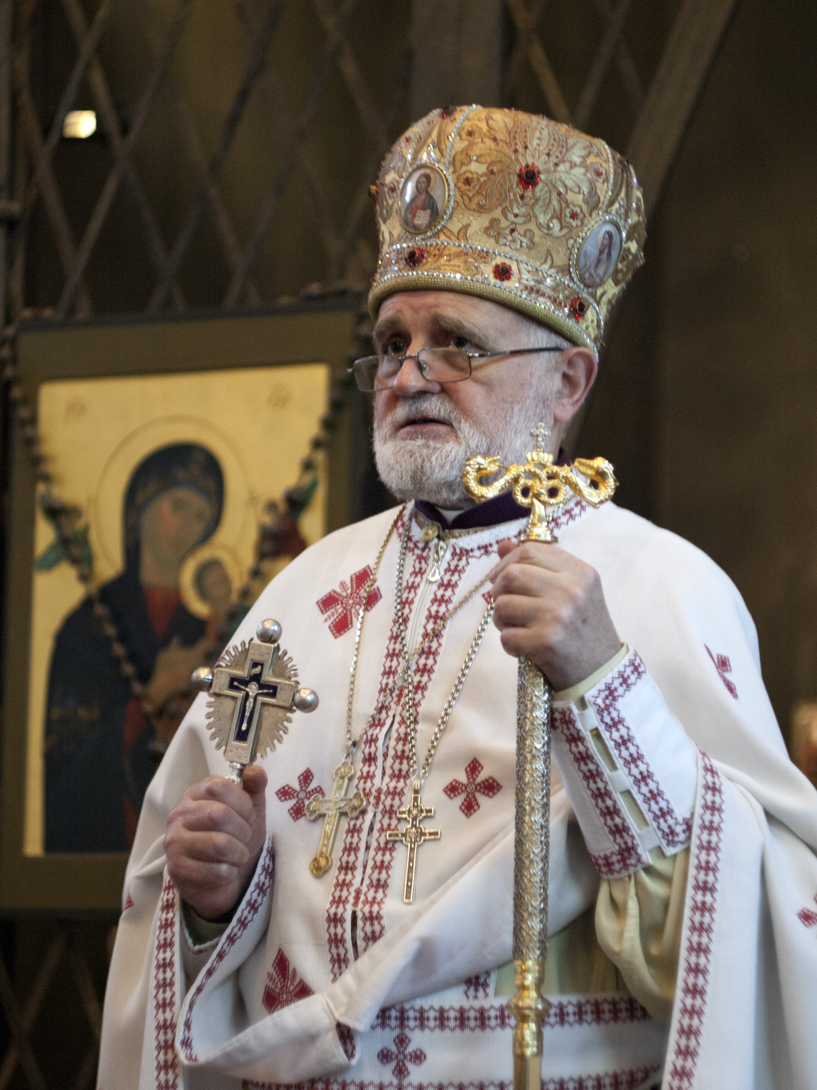 Apostolic Visitator “ad nutum Sanctae Sedis” for Greek Catholics in Belarus Archimandrite Siarhej (Gajek). Беларуская (тарашкевіца): Апостальскі Візітатар “ad nutum Sanctae Sedis” для грэка-католікаў Беларусі Архімандрыт Сяргей (Гаек).